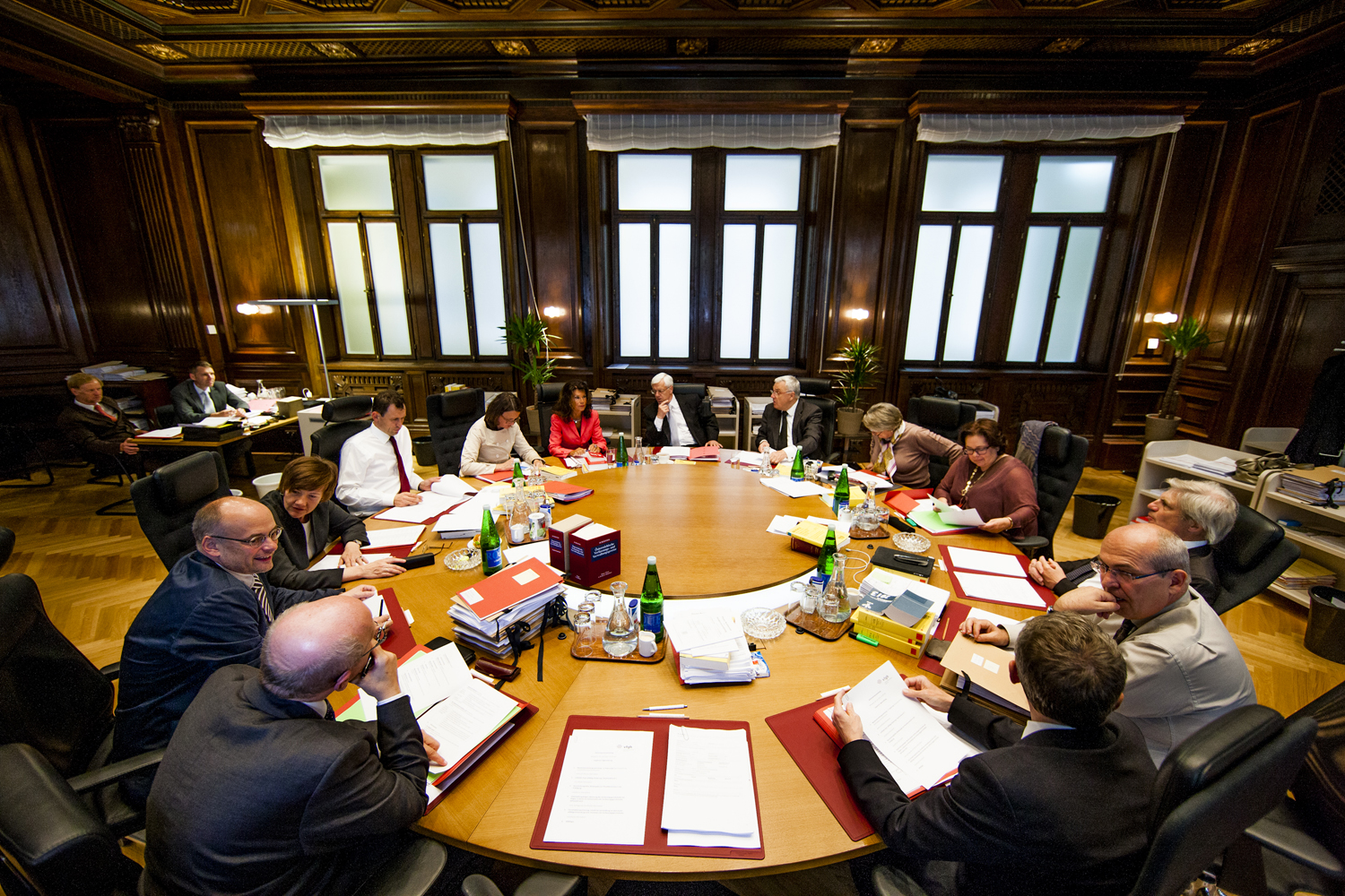 Conference of the members of the Constitutional Court of Austria during the Session, a four-times a year consultation-period, at the consultation room 1 of the Constitutional Court.